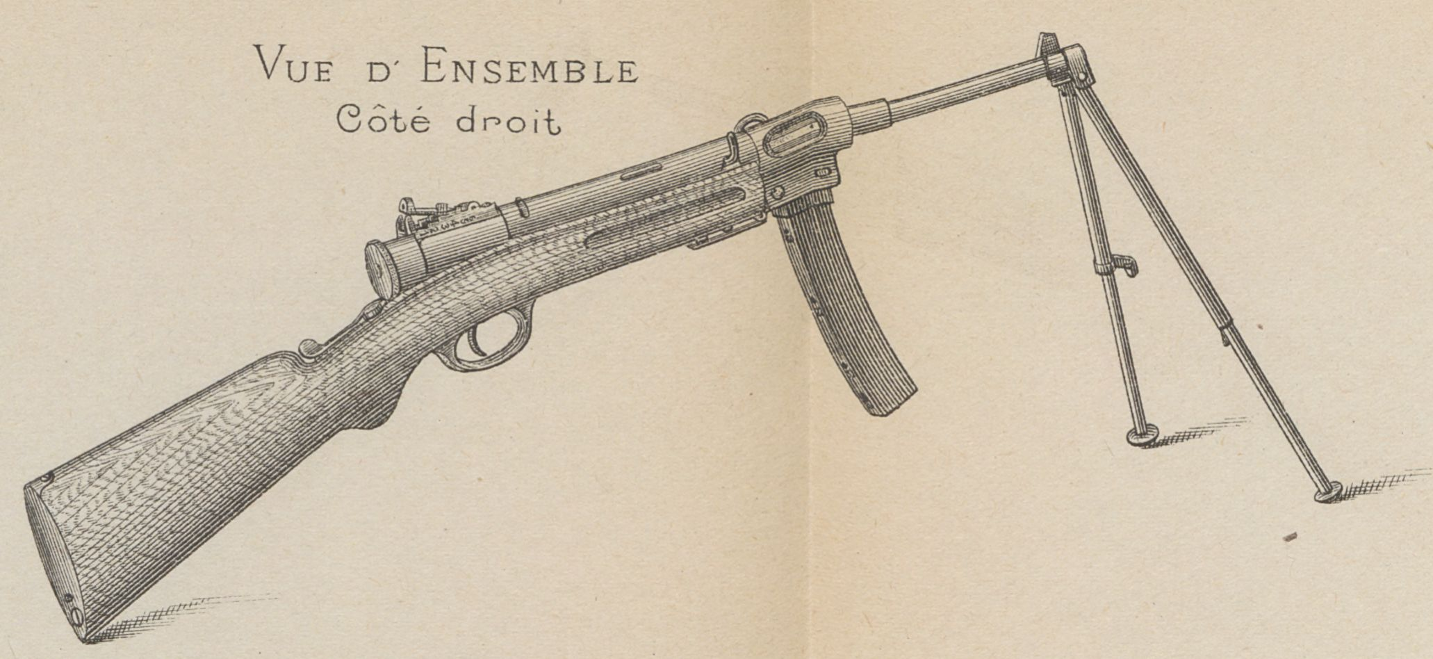 Pistolet-mitrailleur S.T.A. - right view